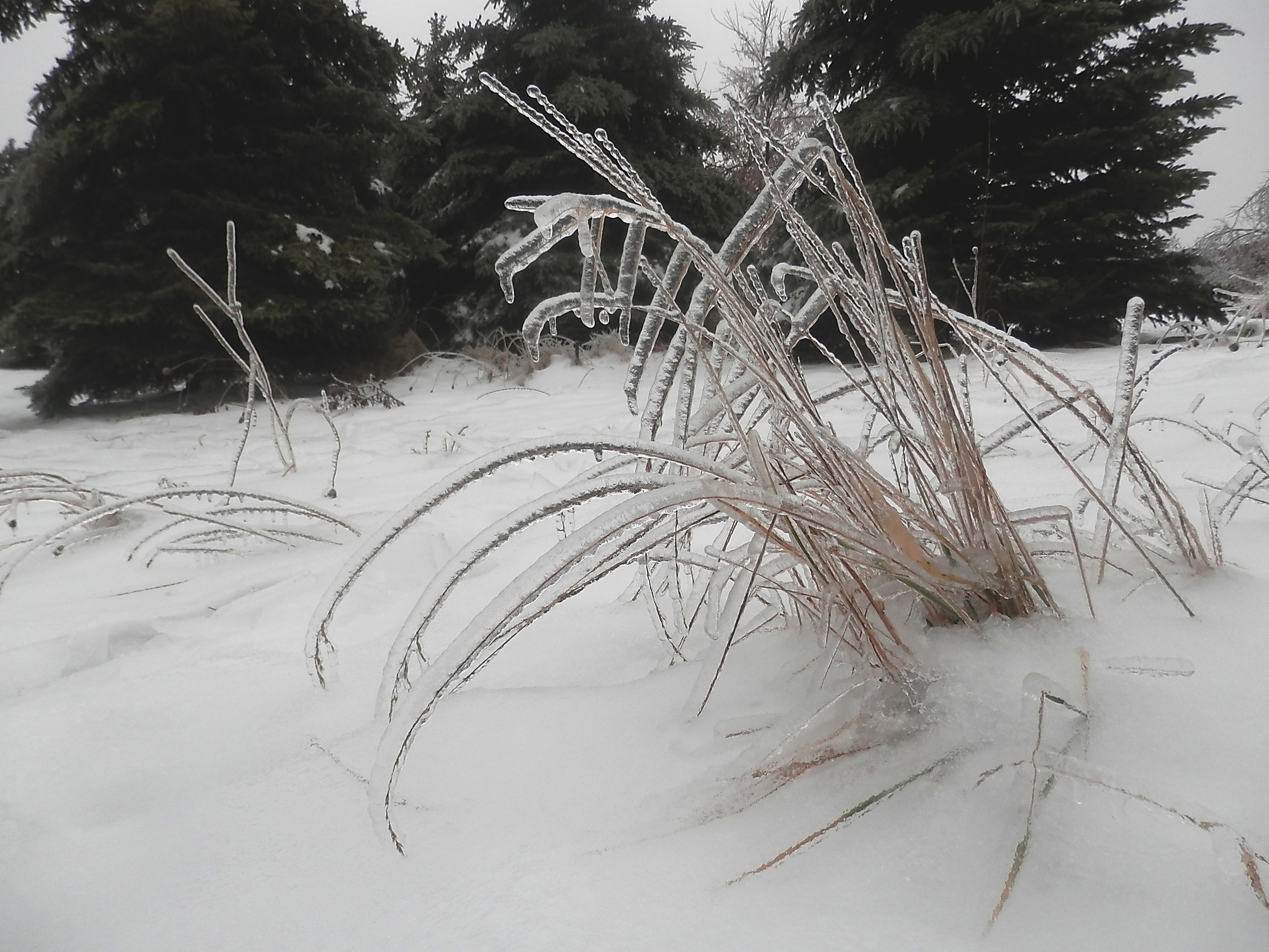 Ice on Plant after 2013 Ice Storm in Guelph, Ontario, Canada.